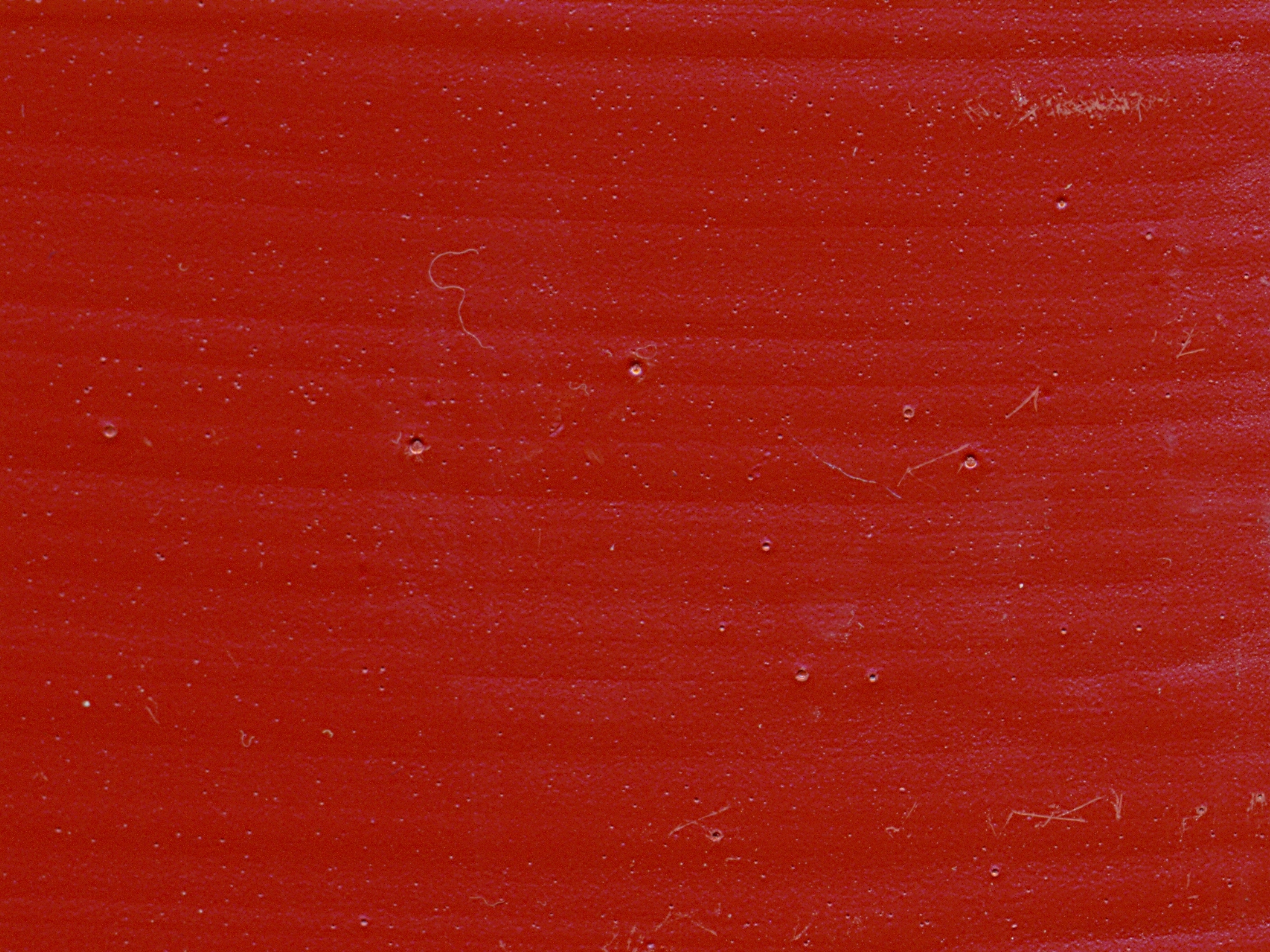 Coating Defects (Crater and Fish Eye)